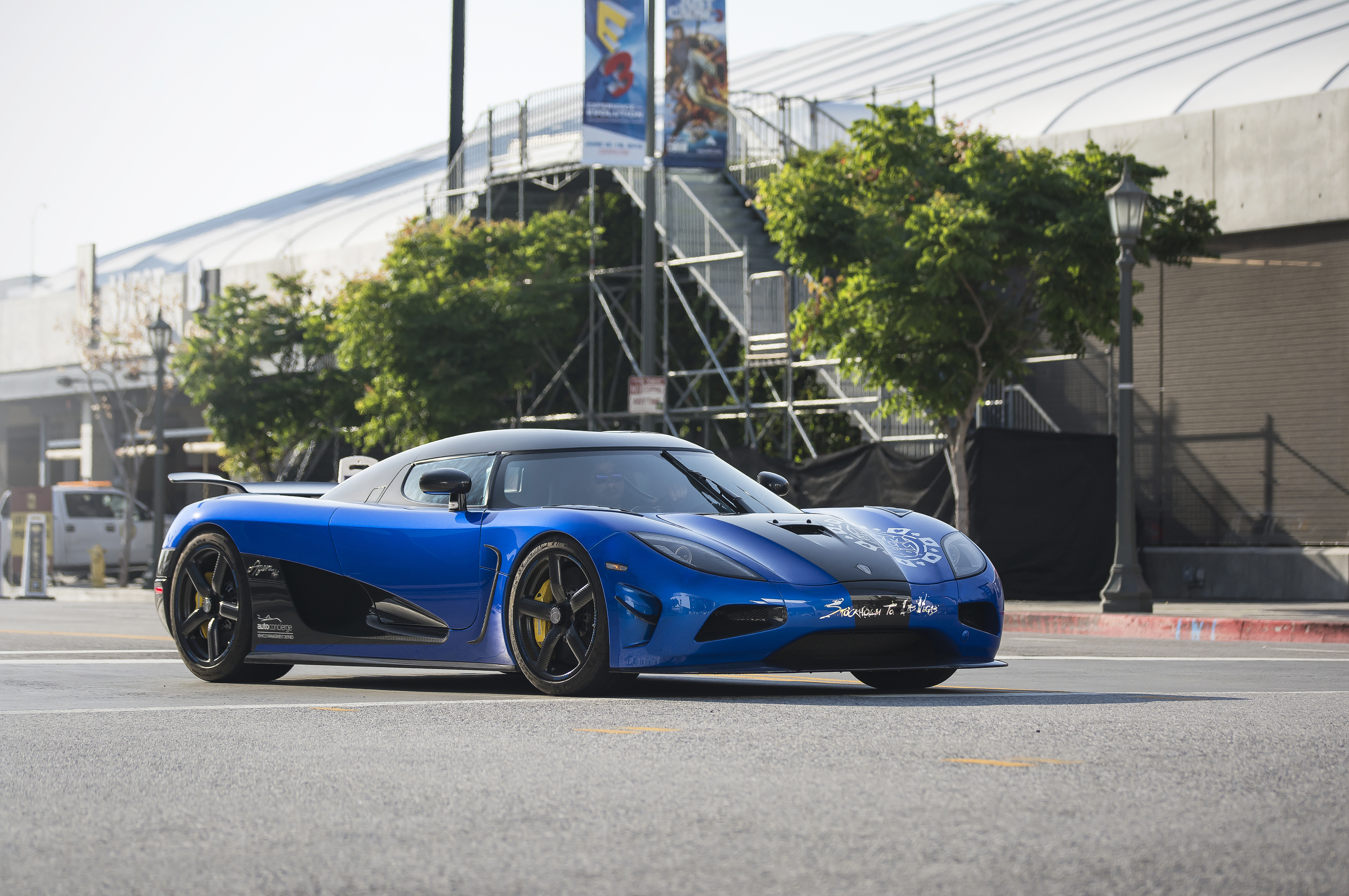 Koenigsegg Agera HH arriving at Gumball 3000 checkpoint in Downtown LA